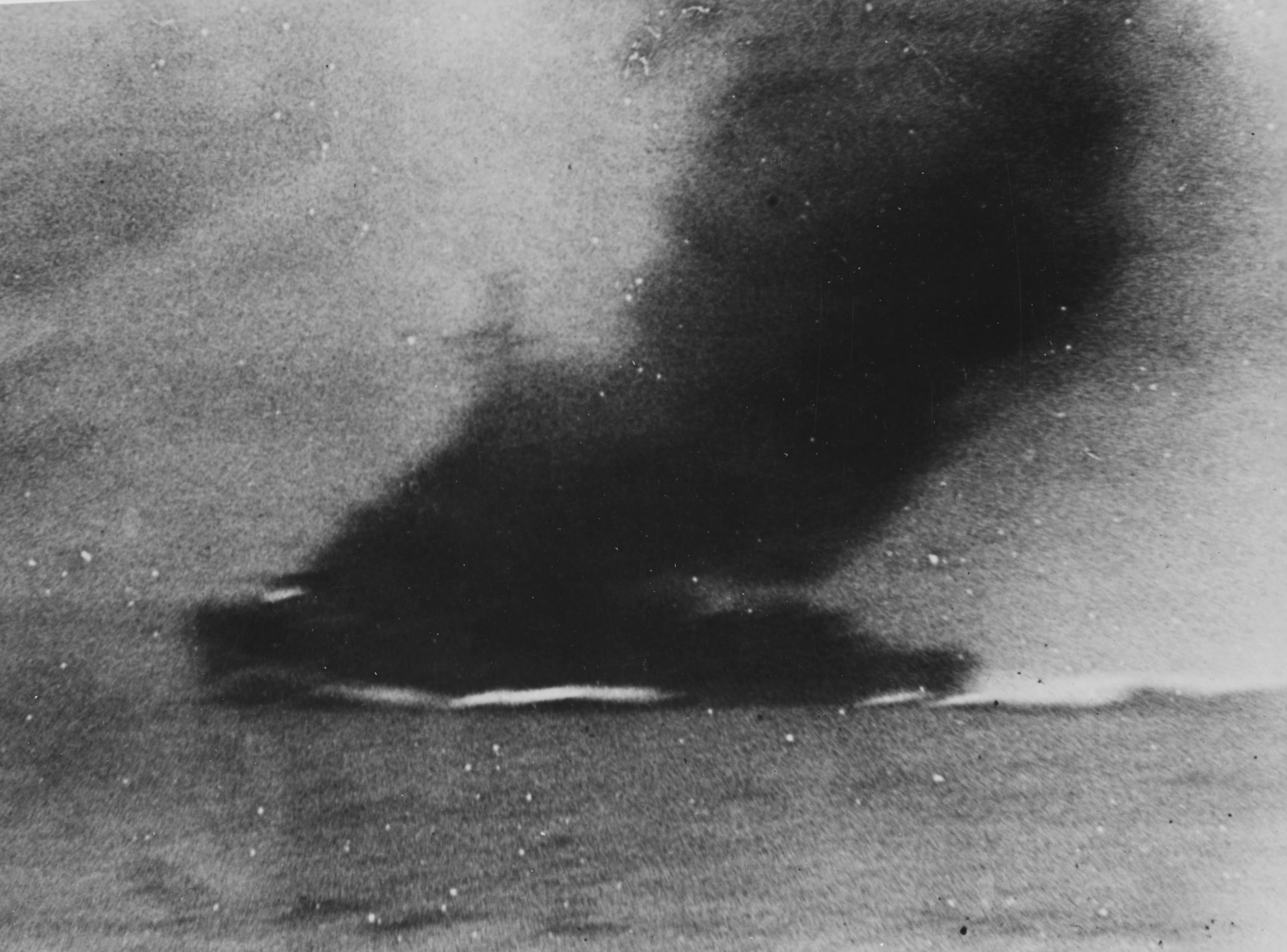 The U.S. Navy destroyer USS Smith (DD-378) burning after she was hit by a crashing Japanese Nakajima B5N2 torpedo plane during an attack on the aircraft carrier USS Enterprise (CV-6) during the Battle of the Santa Cruz Islands, 26 October 1942.